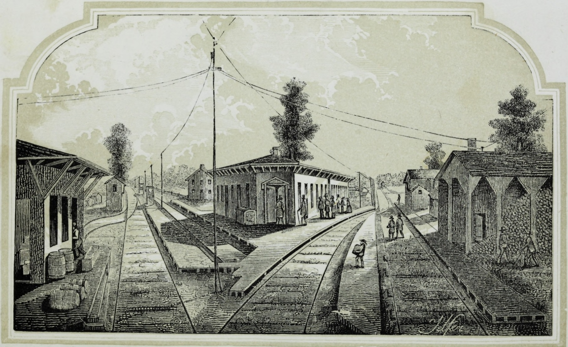 Engraving of the Shelby Station in Shelby, Ohio, in the United States. This is a freight and passenger depot on the Cleveland, Columbus and Cincinnati Railroad, built about 1851.